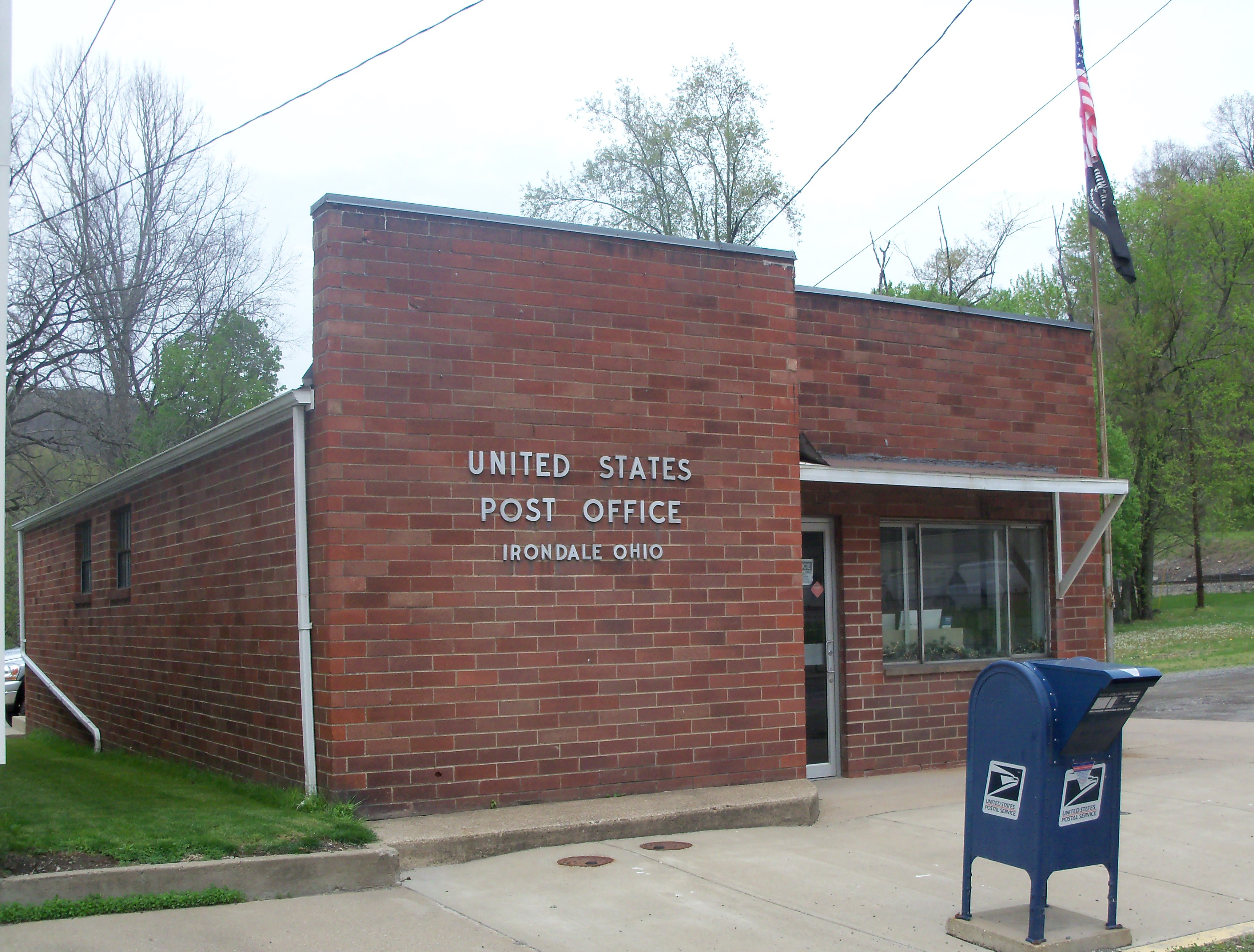 Irondale, Ohio Post Office, near the banks of North Fork Yellow Creek